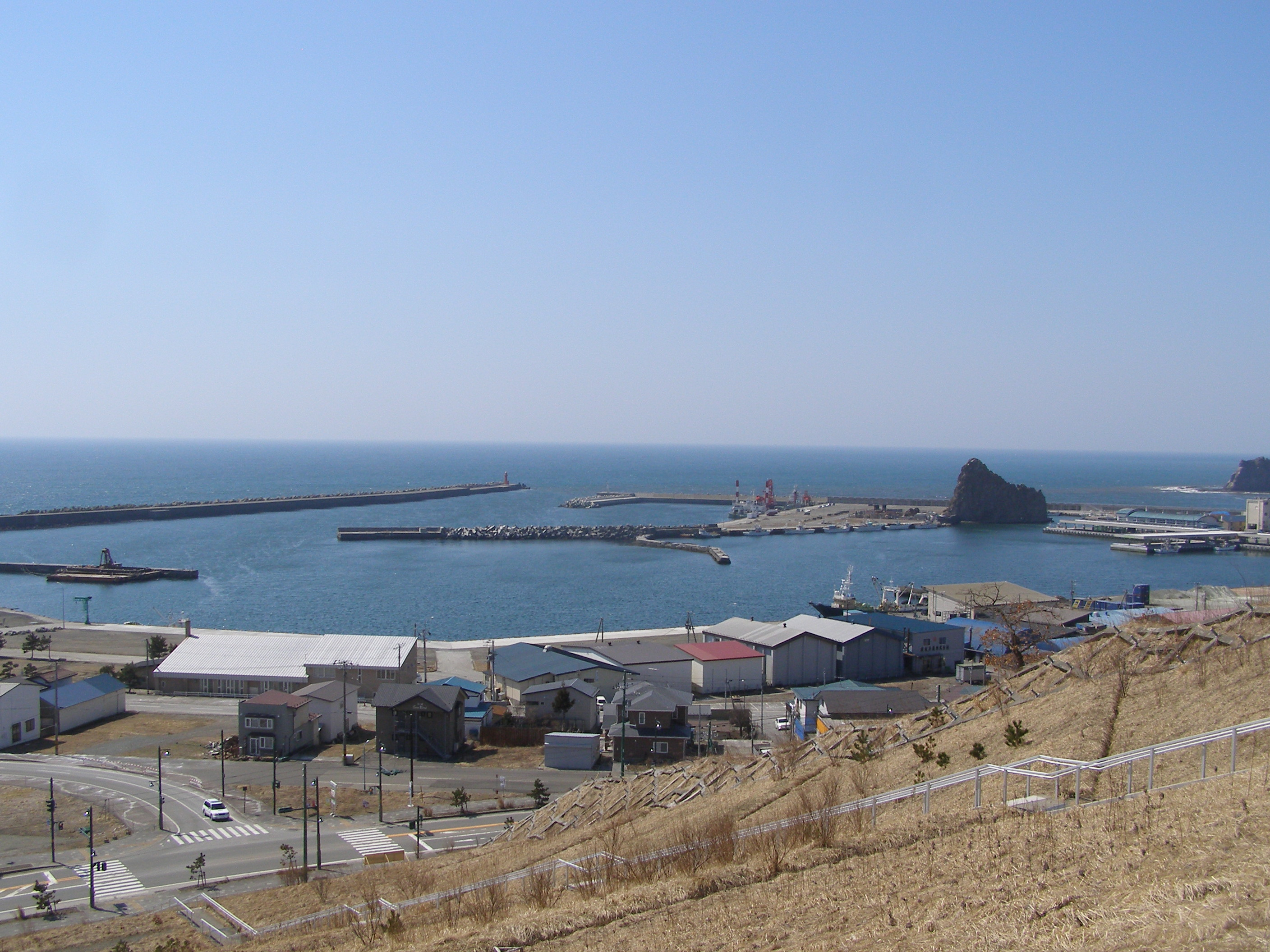 Samani Gyoko harbour